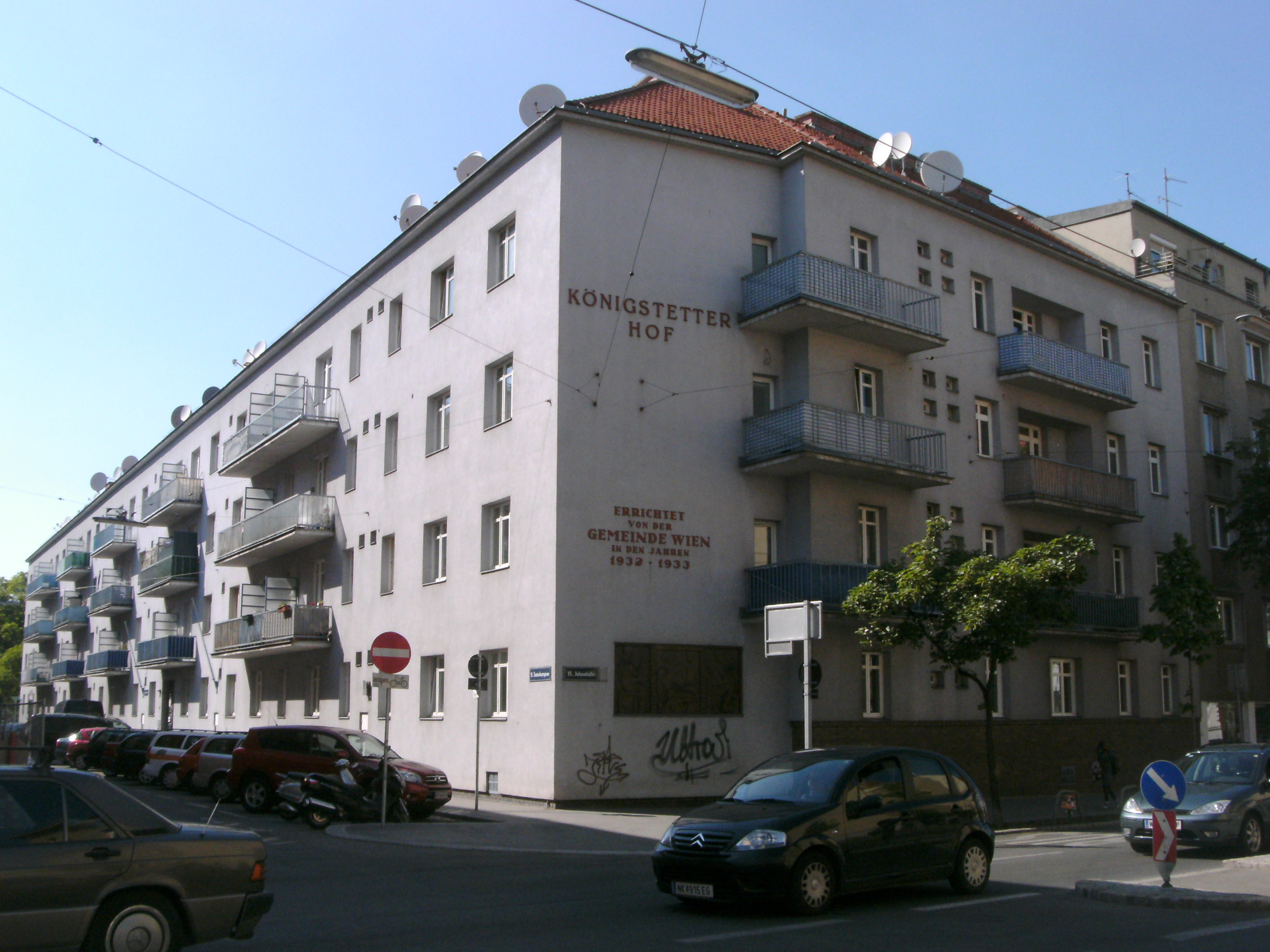 Municipal residential building in Tautenhayngasse 2-8, Vienna's 15h district